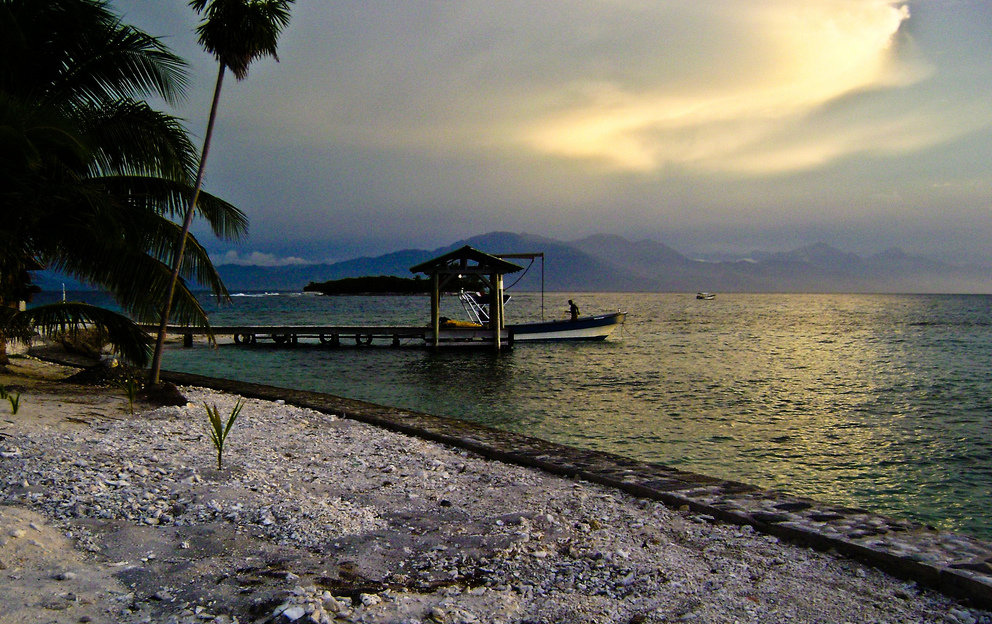 Sunset in one of the islands of Cayos Cochinos... Honduras, Central America...